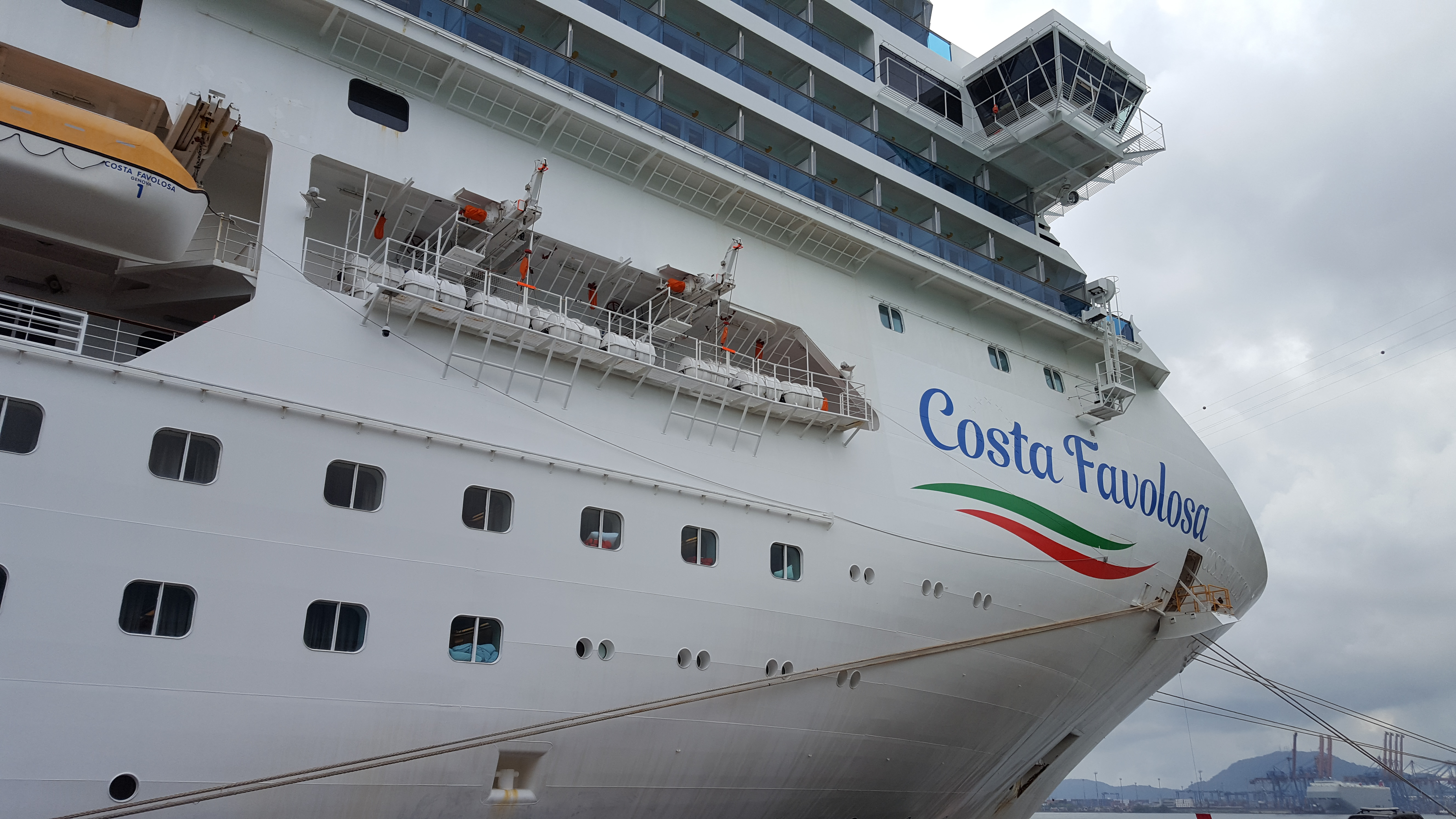 Costa Favolosa external name.